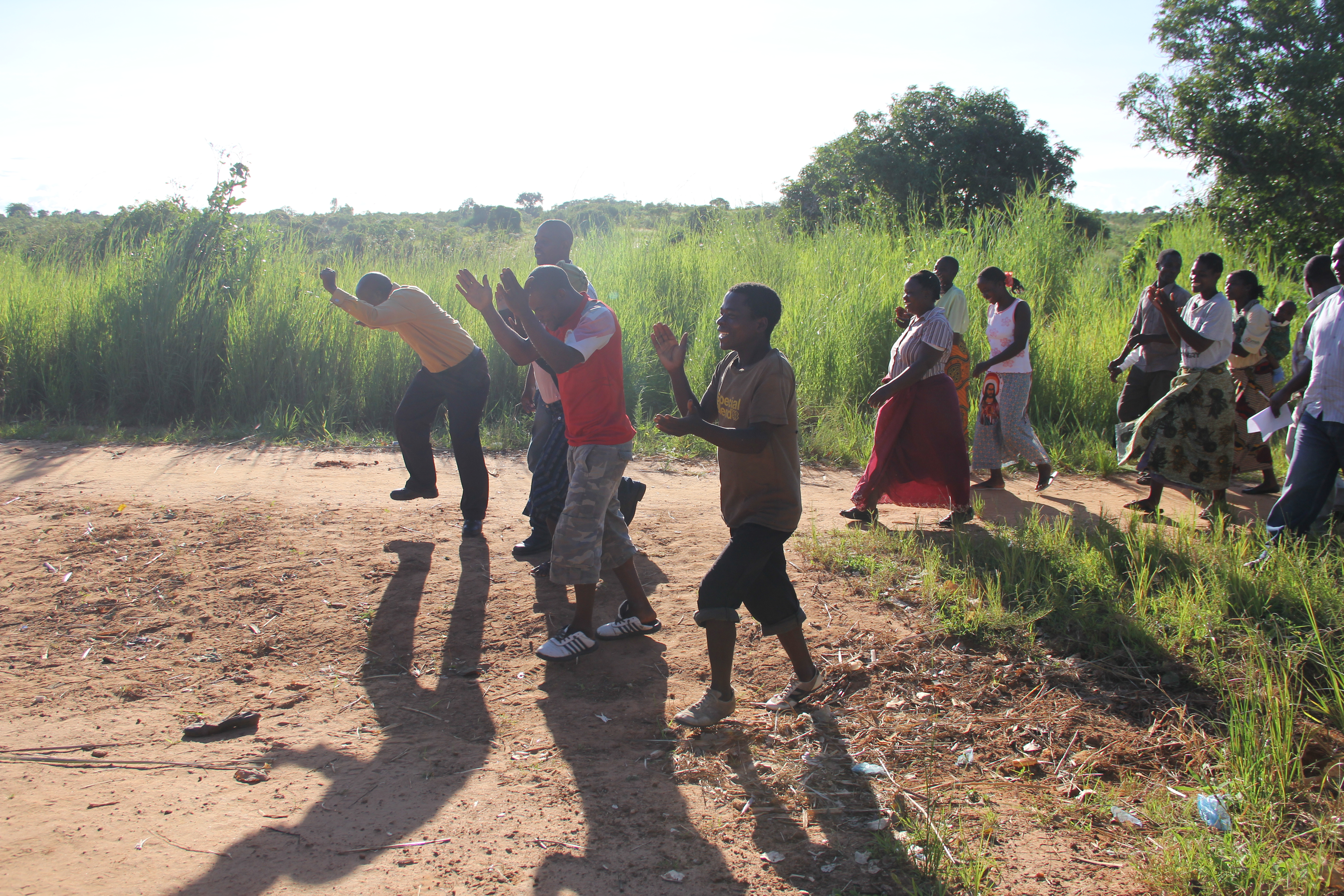 Now health worker Singo and the villagers make the transect walk or ‘walk of shame’ by visiting the places they have identified where open defecation takes place. They sing ‘let us end open defecation’.